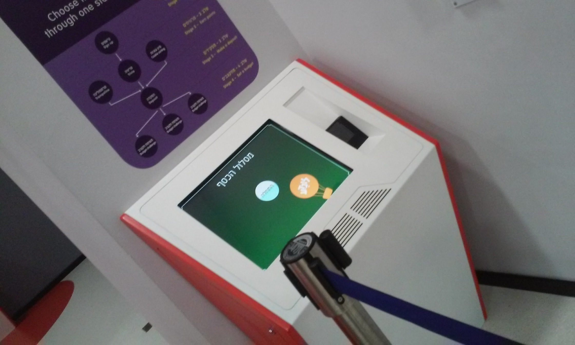 Lunada Children Museum